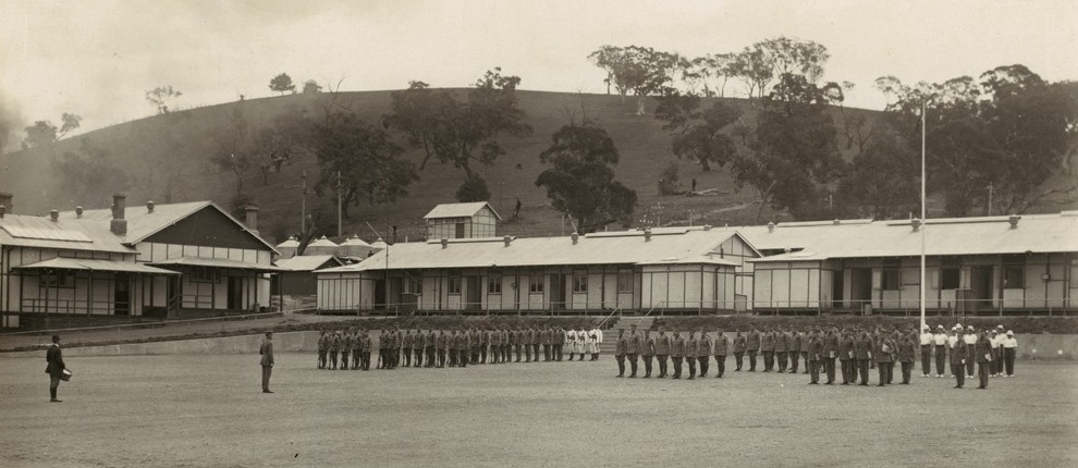 Photograph of military cadets on parade at Royal Military College, Duntroon, taken around 1920